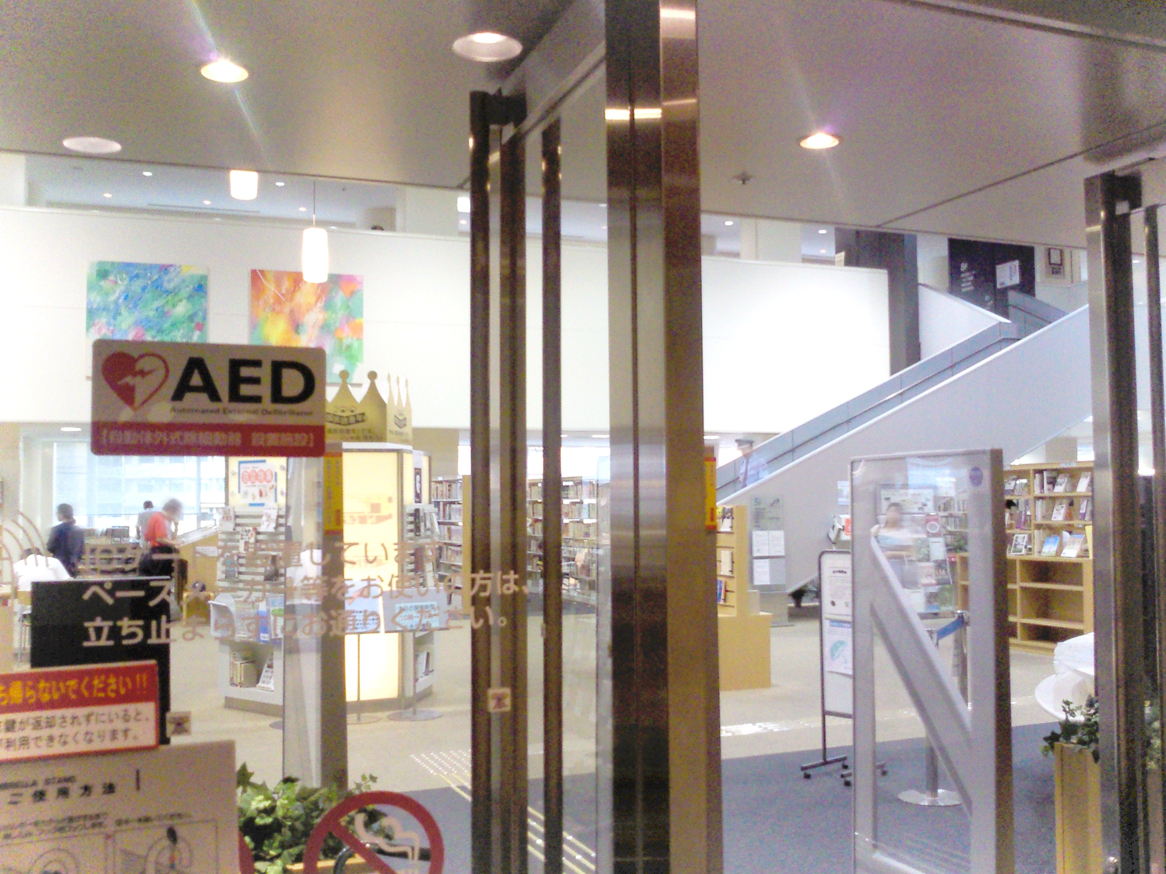 Chūō Library, Toshima-ku.